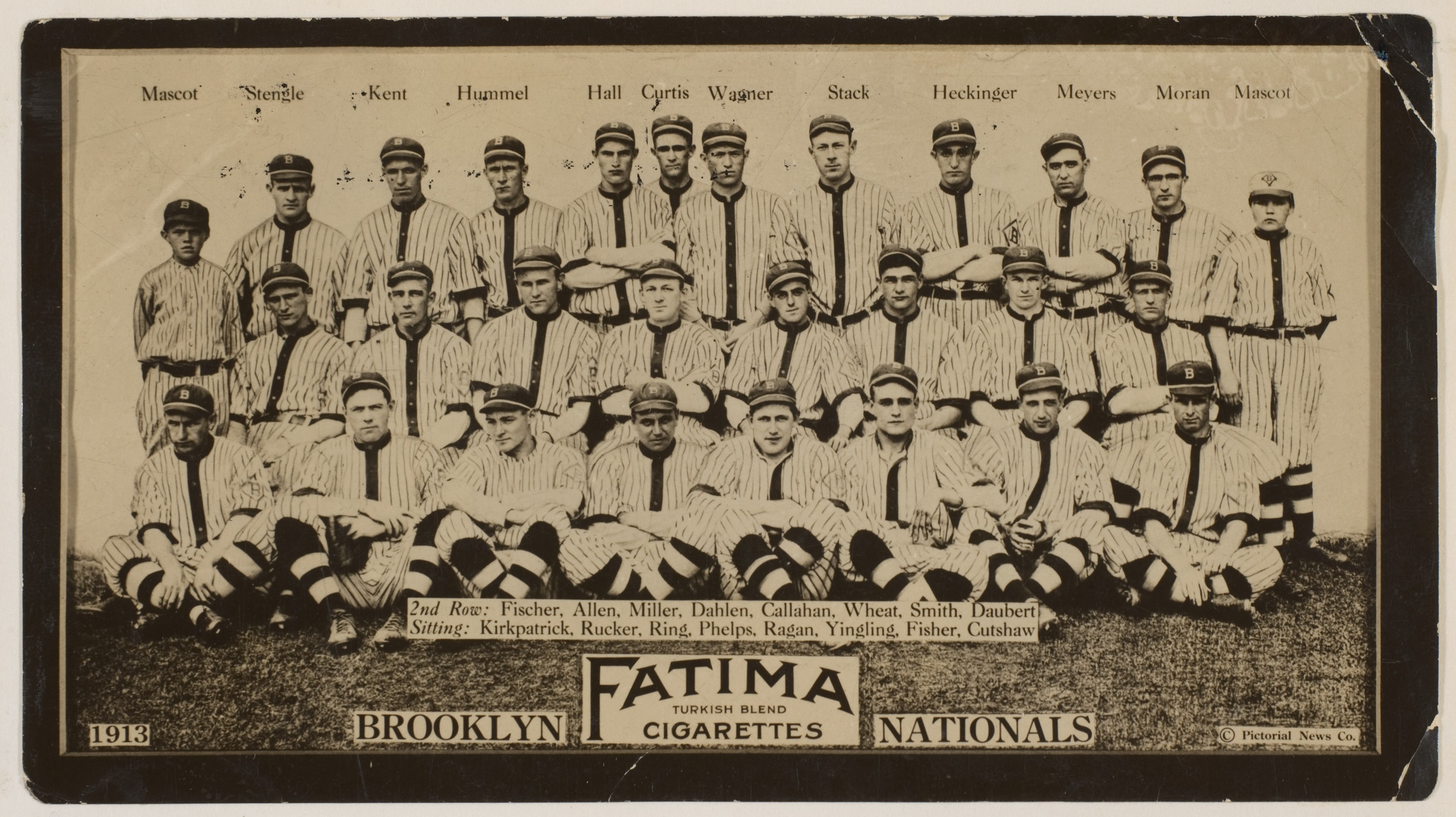 Team photo of the 1913 Brooklyn Dodgers baseball team.